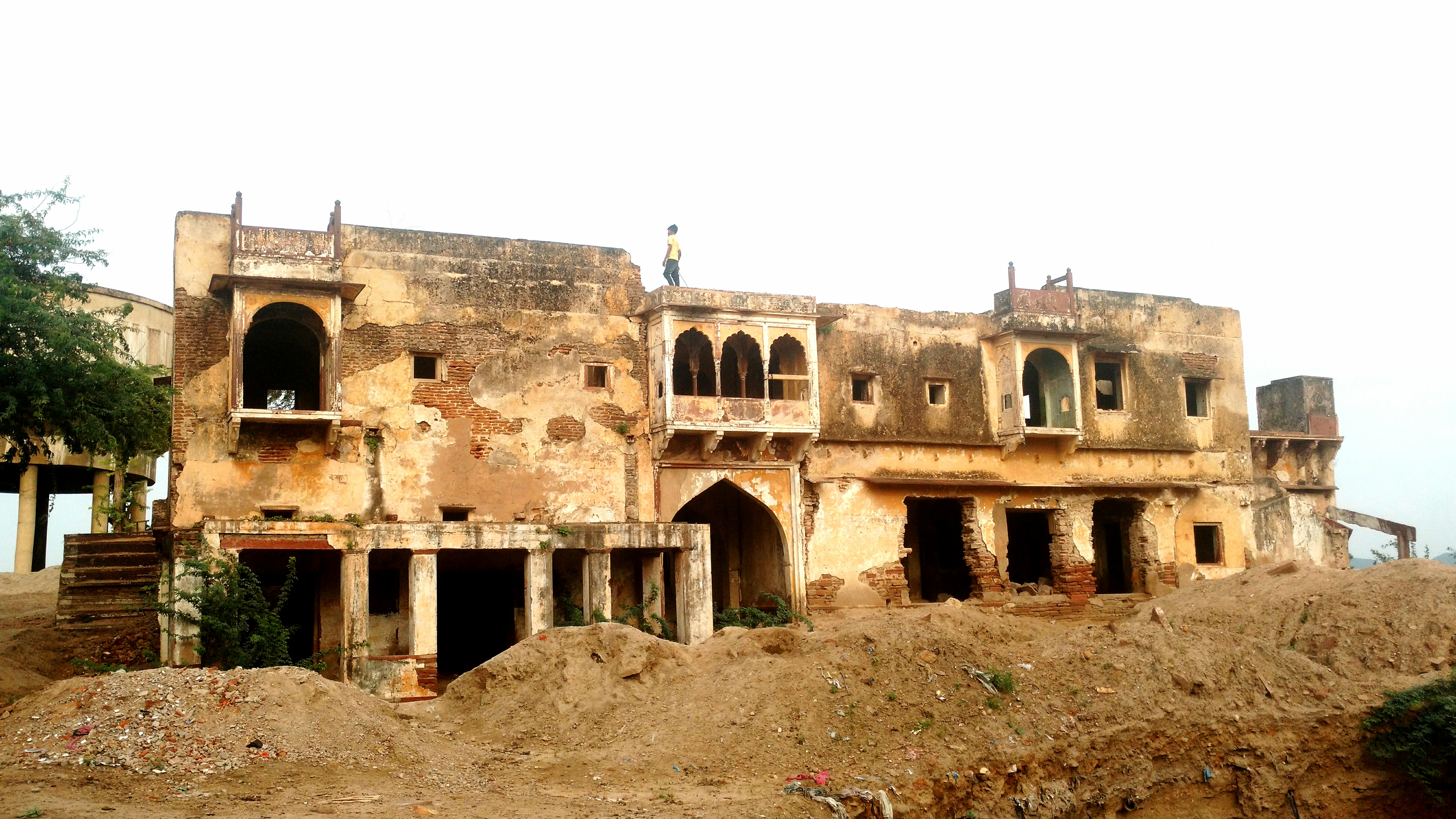 It picture of Hindaun fort at Front and it is a Ancient historical landmark but it is not in well condition. It known as Purani kacheri.